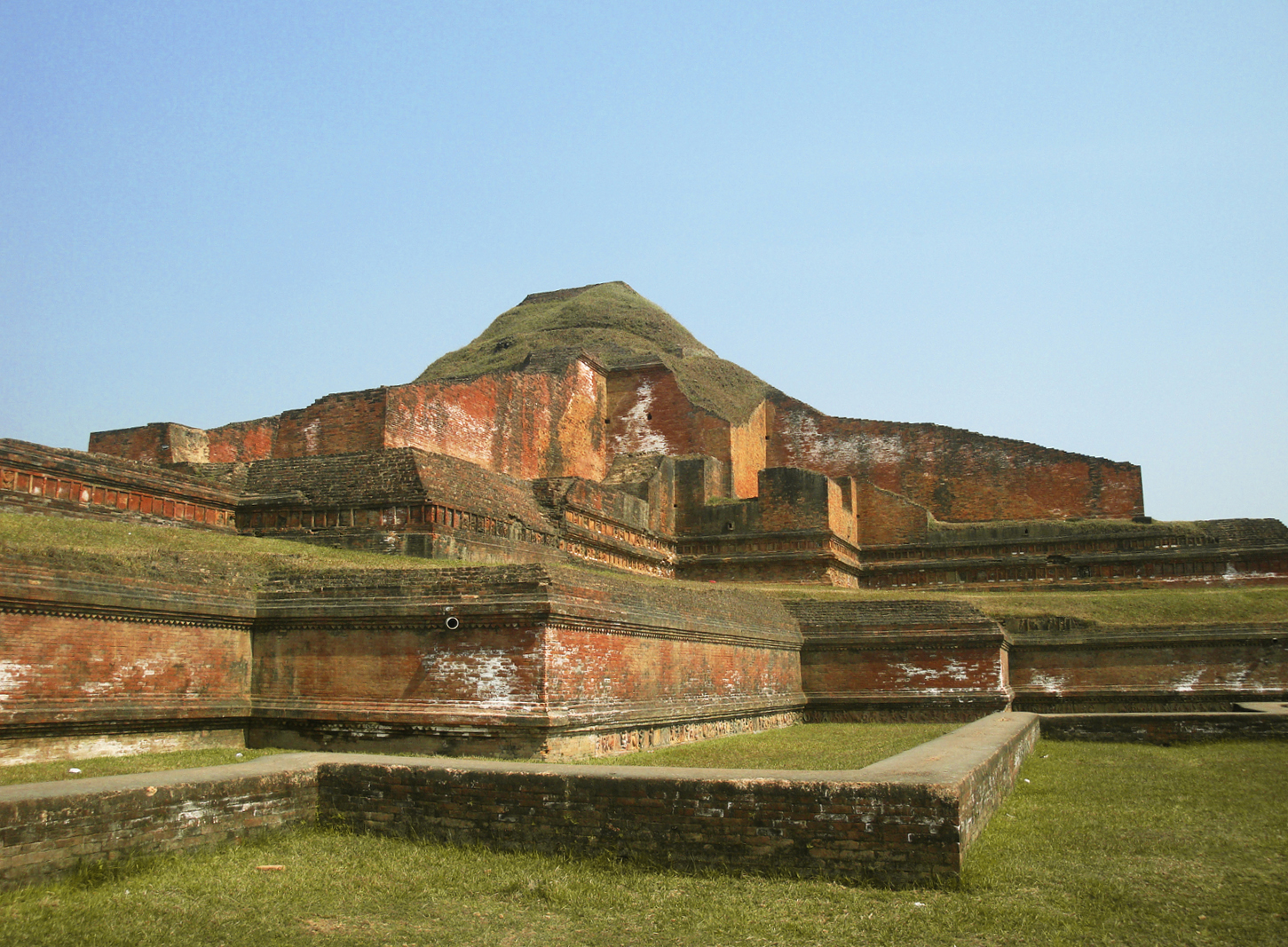 Somapura Mahavihara (Bengali: সোমপুর মহাবিহার Shompur Môhabihar) in Paharpur, Badalgachhi Upazila, Naogaon District, Bangladesh (25°1'51.83"N, 88°58'37.15"E) is among the best known Buddhist viharas in the Indian Subcontinent and is one of the most important archeological sites in the country. It was designated a UNESCO World Heritage Site in 1985.